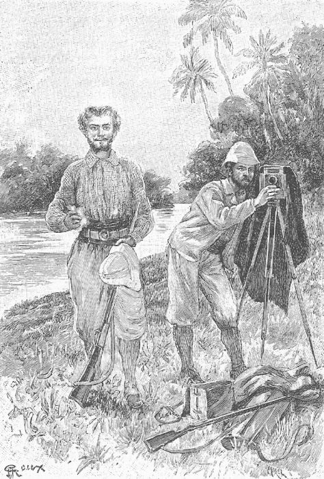 An illustration from the novel "The Mighty Orinoco" by Jules Verne drawn by George Roux.